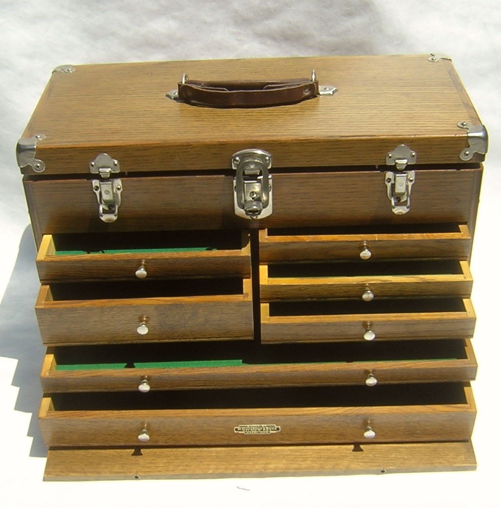 Tool Chest made by H. Gerstner & Sons, Dayton, Ohio. Model O-41-C